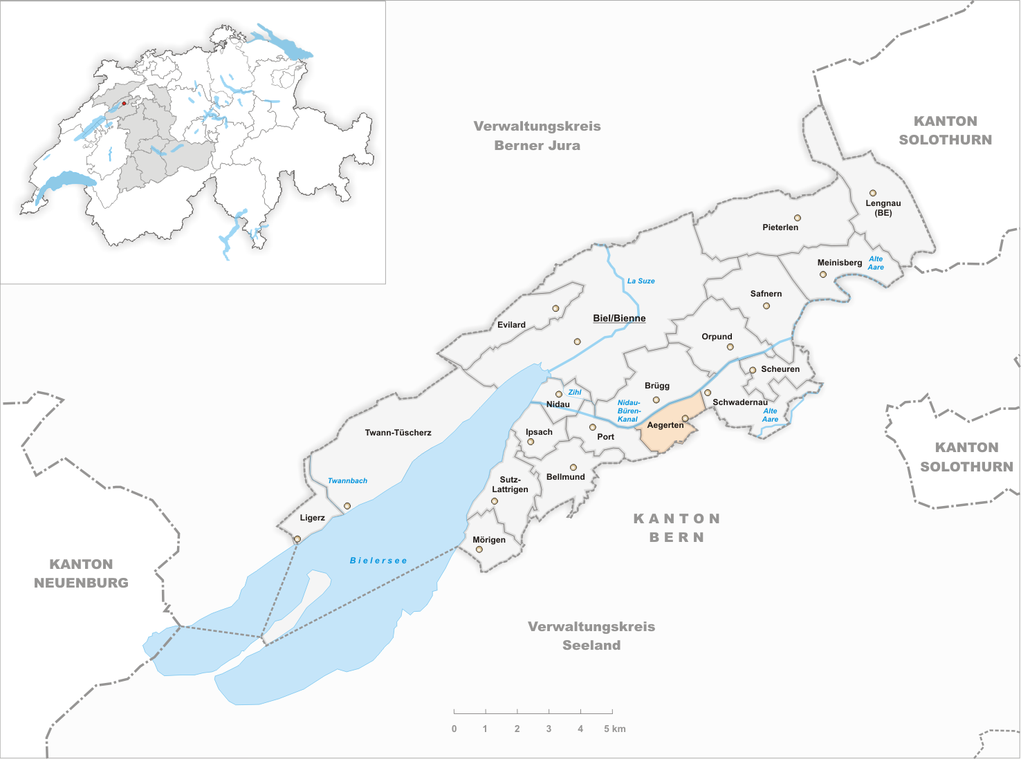 Municipality Aegerten